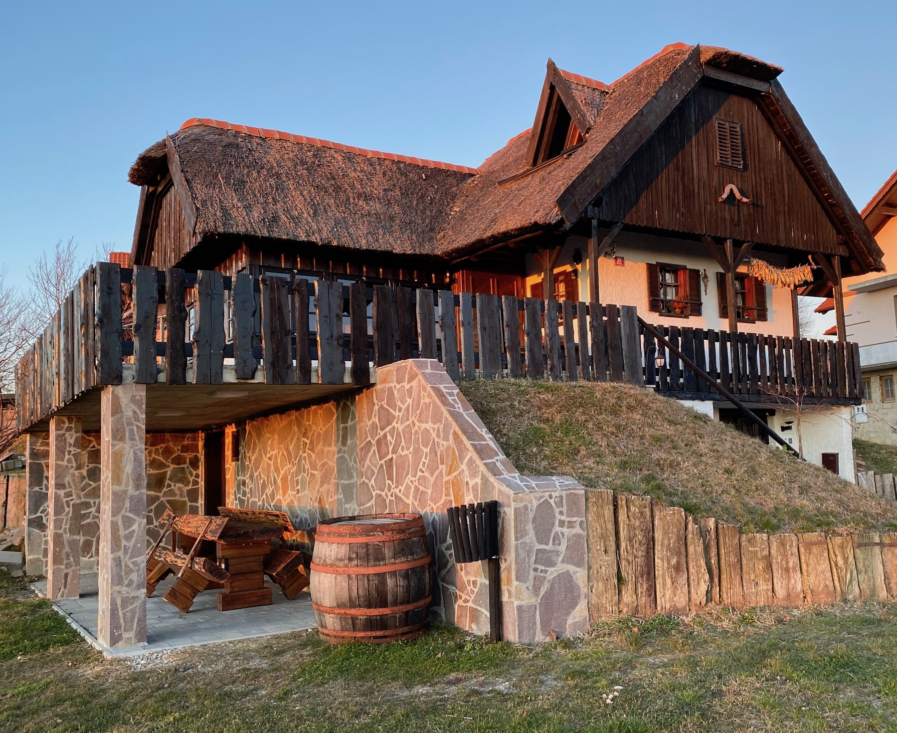 A traditional vineyard cottage in Rotman, Jursinci, Ptuj, Slovenia